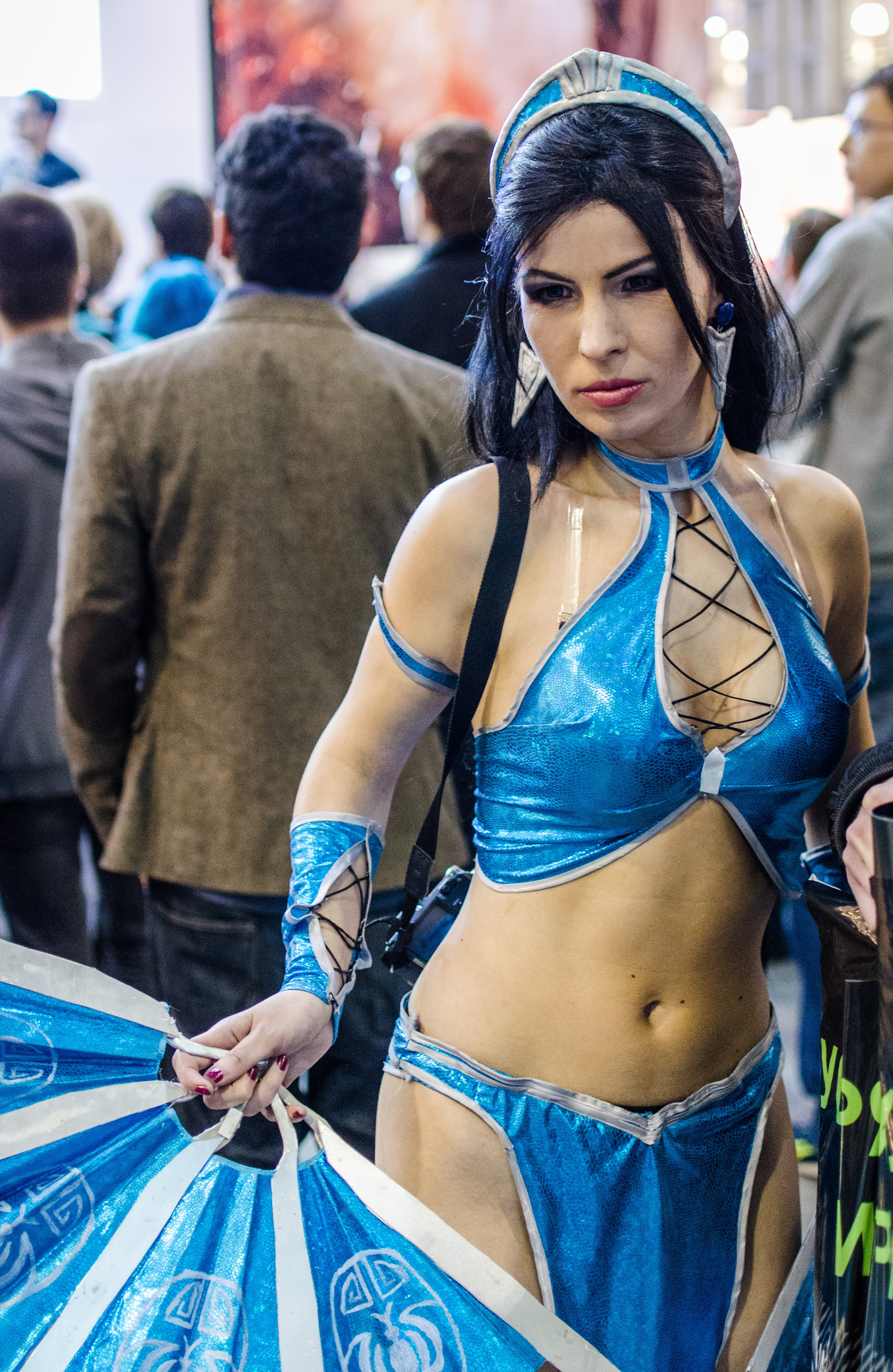 Member since 2005 Taken on October 5, 2012 Nikon D5100